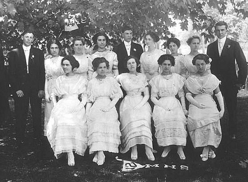 Class of 1912, Martinsville High School, Martinsville, Virginia (retouched by MarmadukePercy).